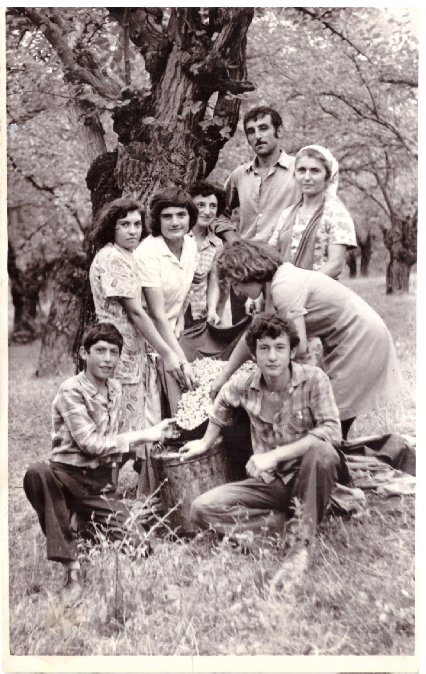 The villagers give a boom